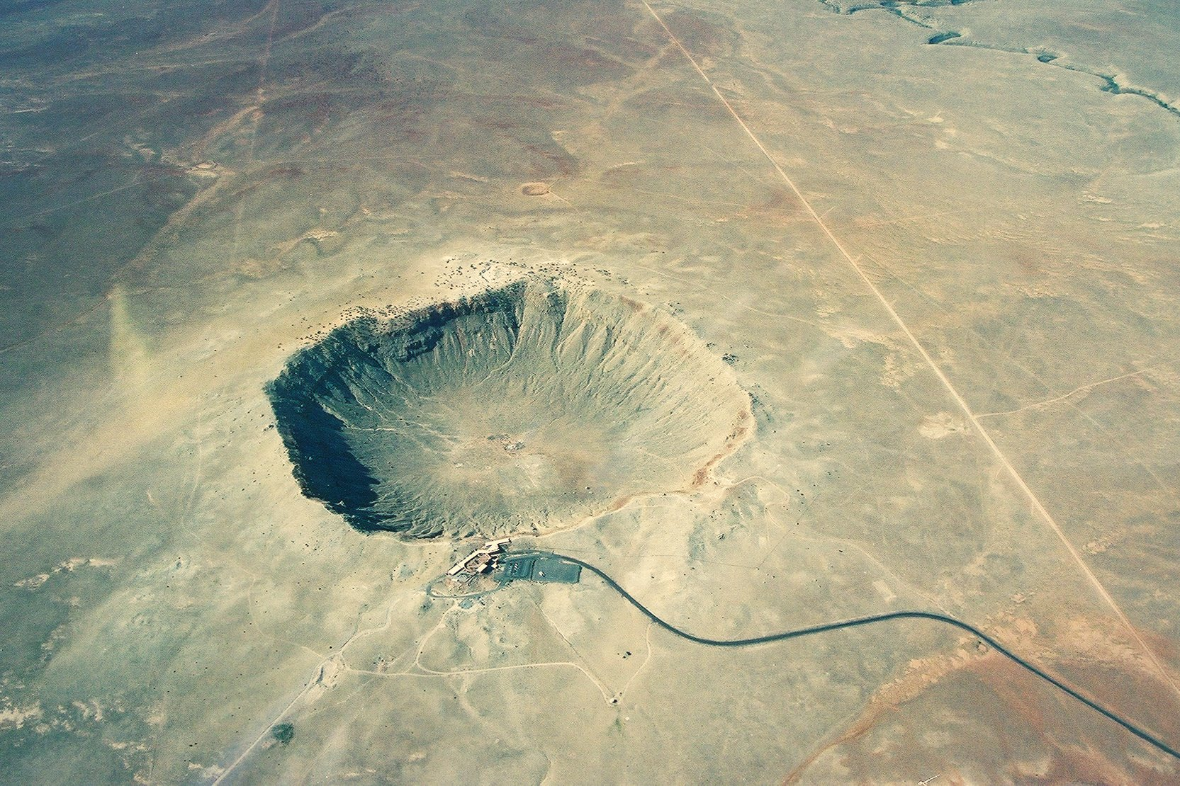 Aerial Photograph of the Barringer Meteor Crater in Arizona, USA.